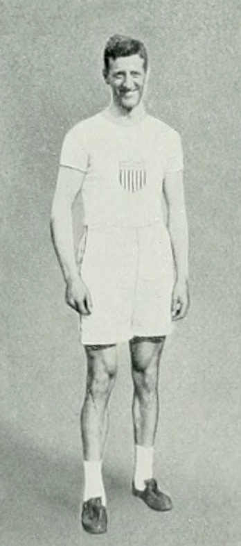 Platt Adams at the 1912 Summer Olympics.